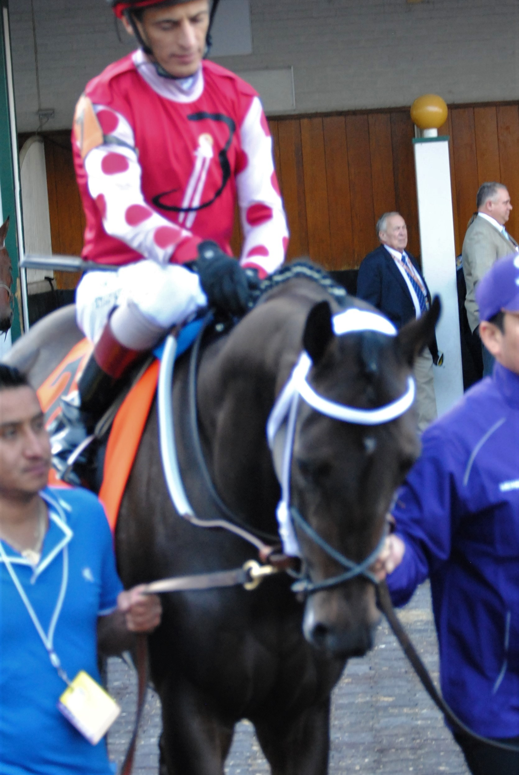 Midnight Bisou at the 2018 Breeders' Cup with jockey John Velazquez